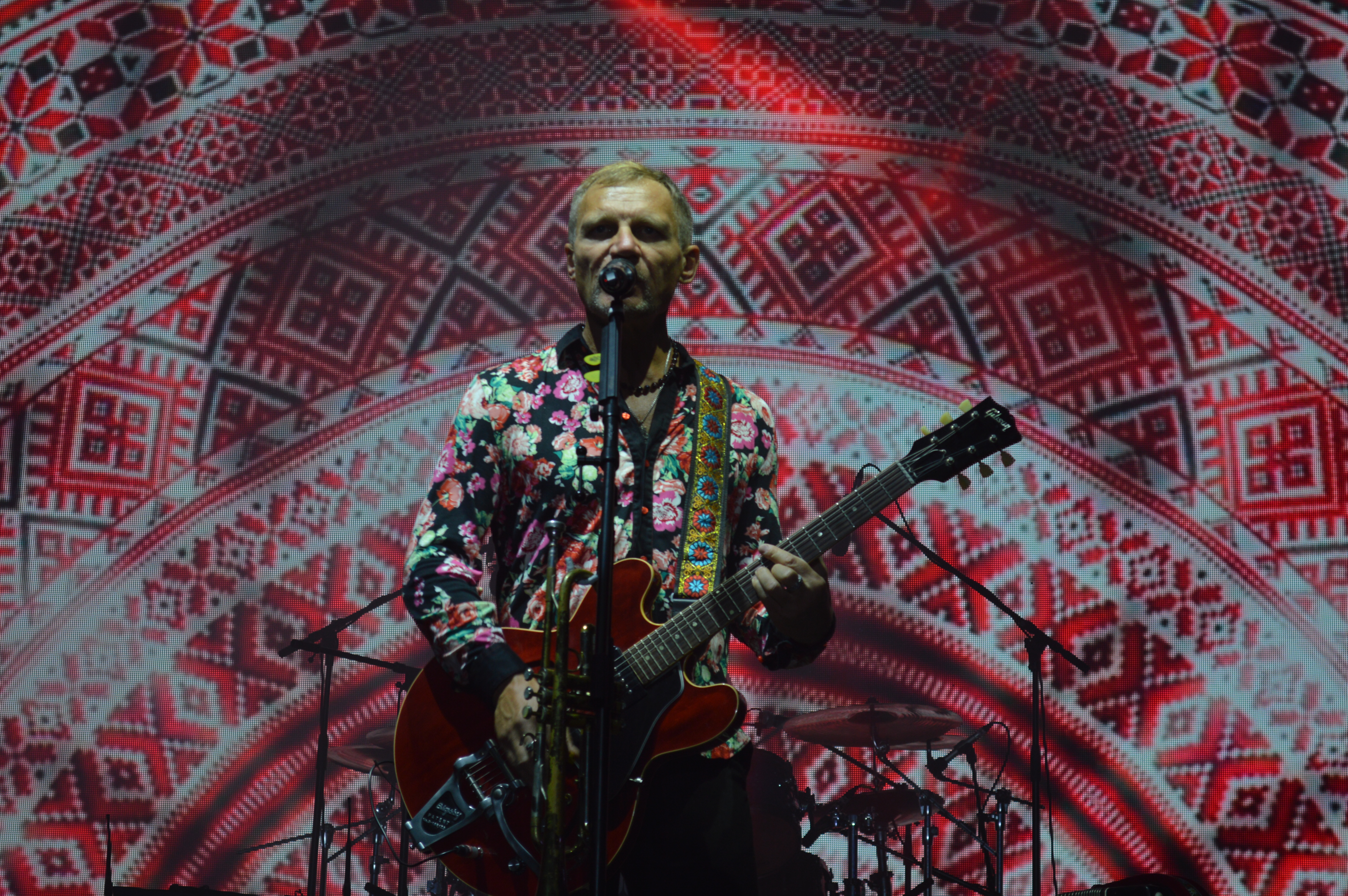 Ukrainian singer Oleh Skrypka, the frontman of the band Vopli Vidoplyasova, at the 2018 MRPL City Festival.